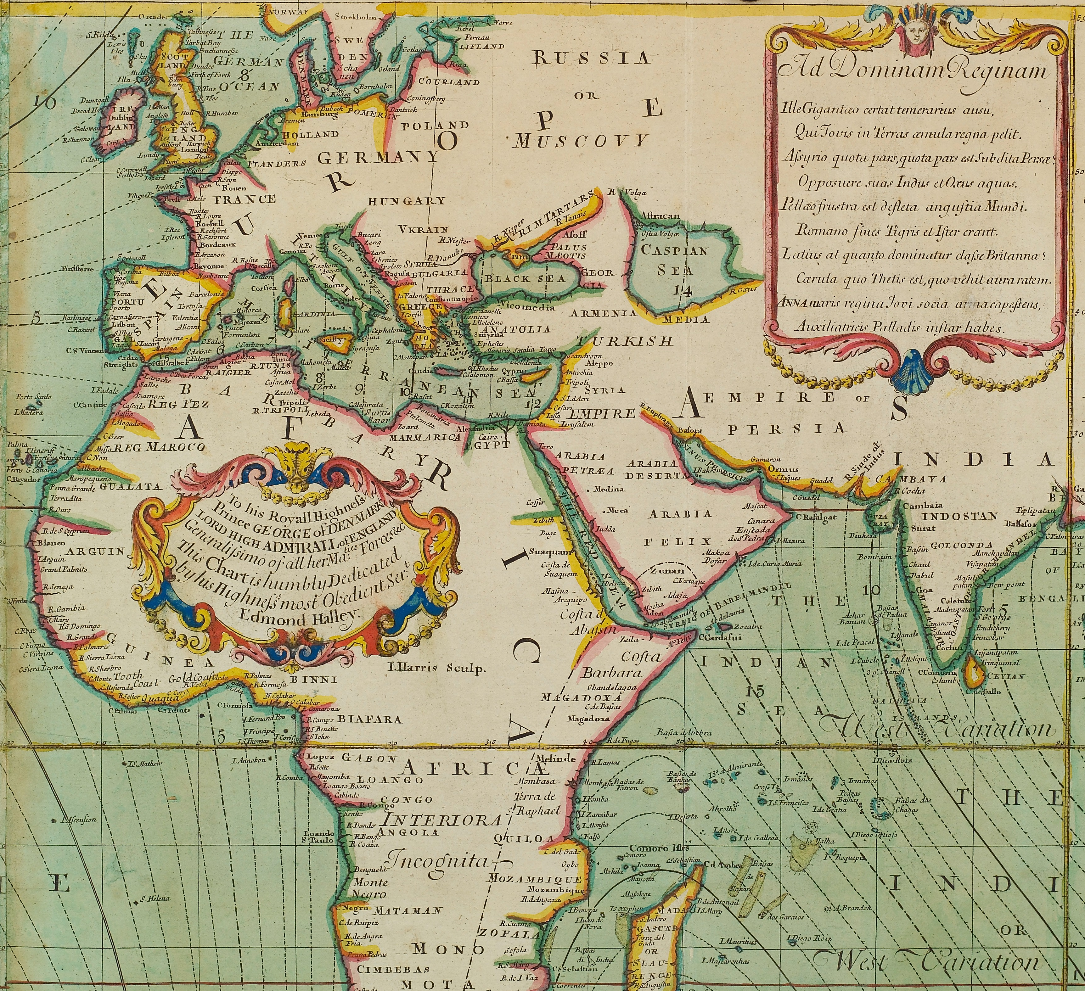 Contains 8 pages of text and 173 double-page large folio charts, colored by a contemporary hand. Citation/Reference: Sabin 95631 Most of the maps bear the imprint of Samuel Thornton, but some were issued by John Thornton, and others. The volumes may be a compilation from several sources, including John Thornton's Atlas maritimus.--cf. Bookseller's description inserted in v. 1; Sabin 95631; and Phillips 2833, 3455.